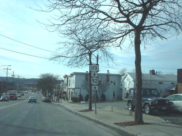 Signs in the village of Manlius for NY 173 and NY 92.